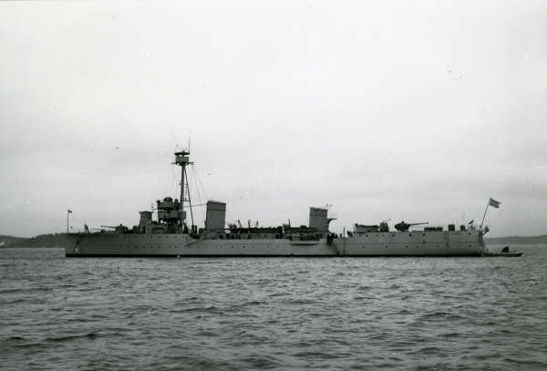 The Swedish cruiser HMS Clas Fleming.